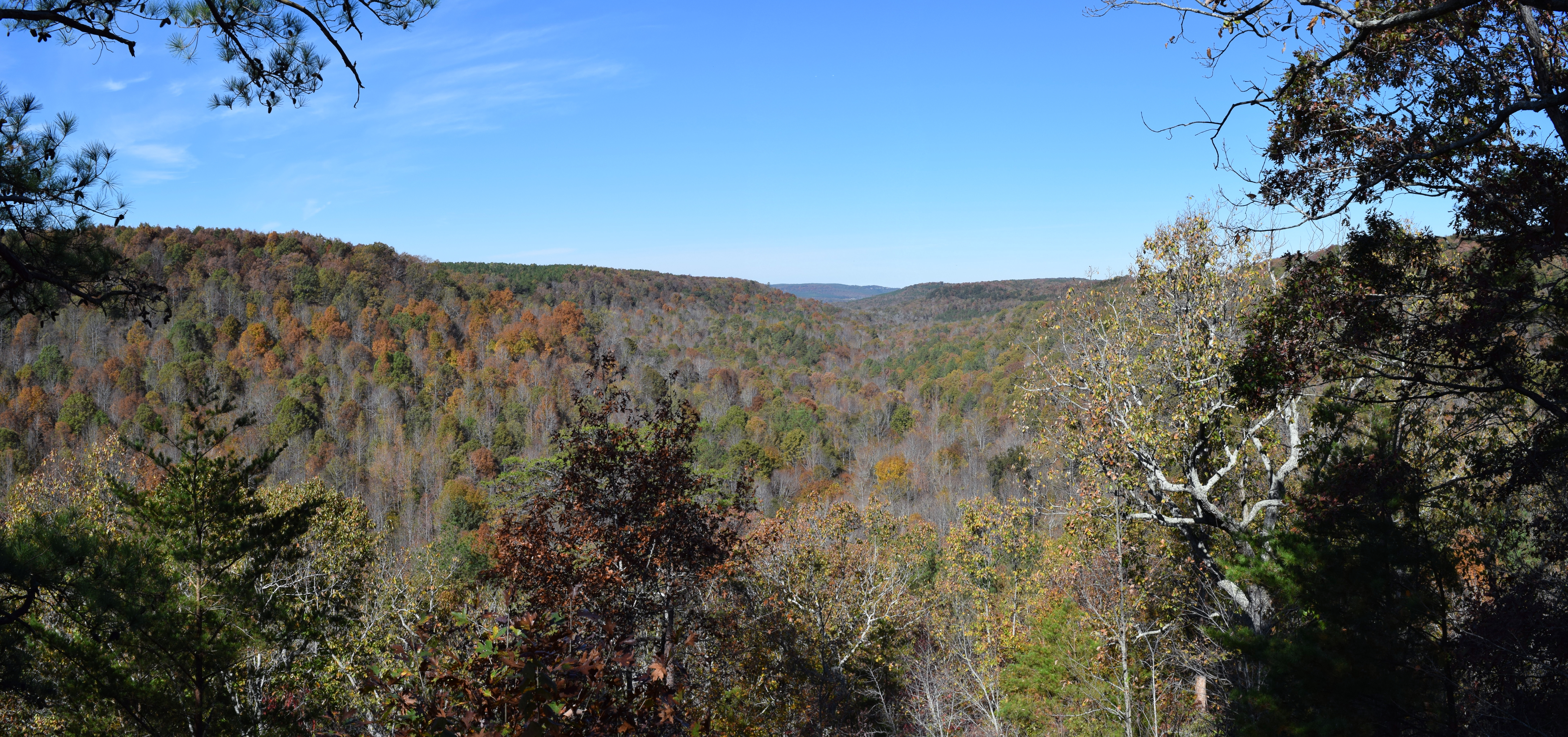 Cane Creek Canyon viewed from the point in Cane Creek Canyon Nature Preserve, Alabama.